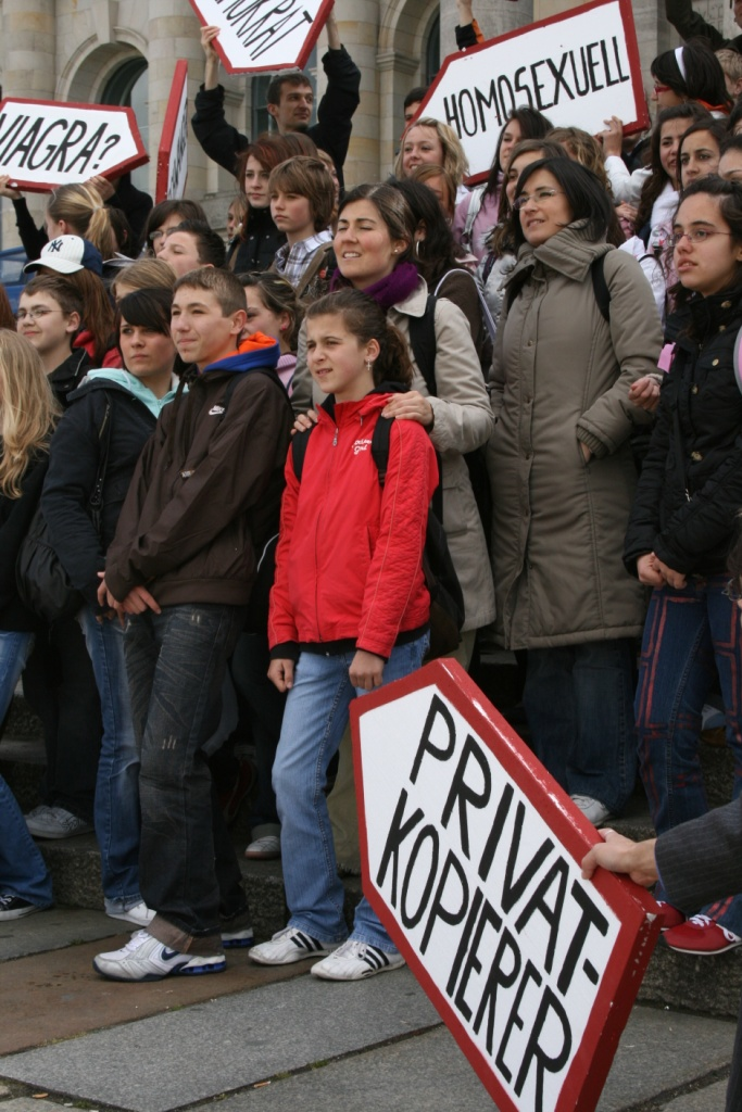 Critics on the telecommunications data retention in front of the Reichstag